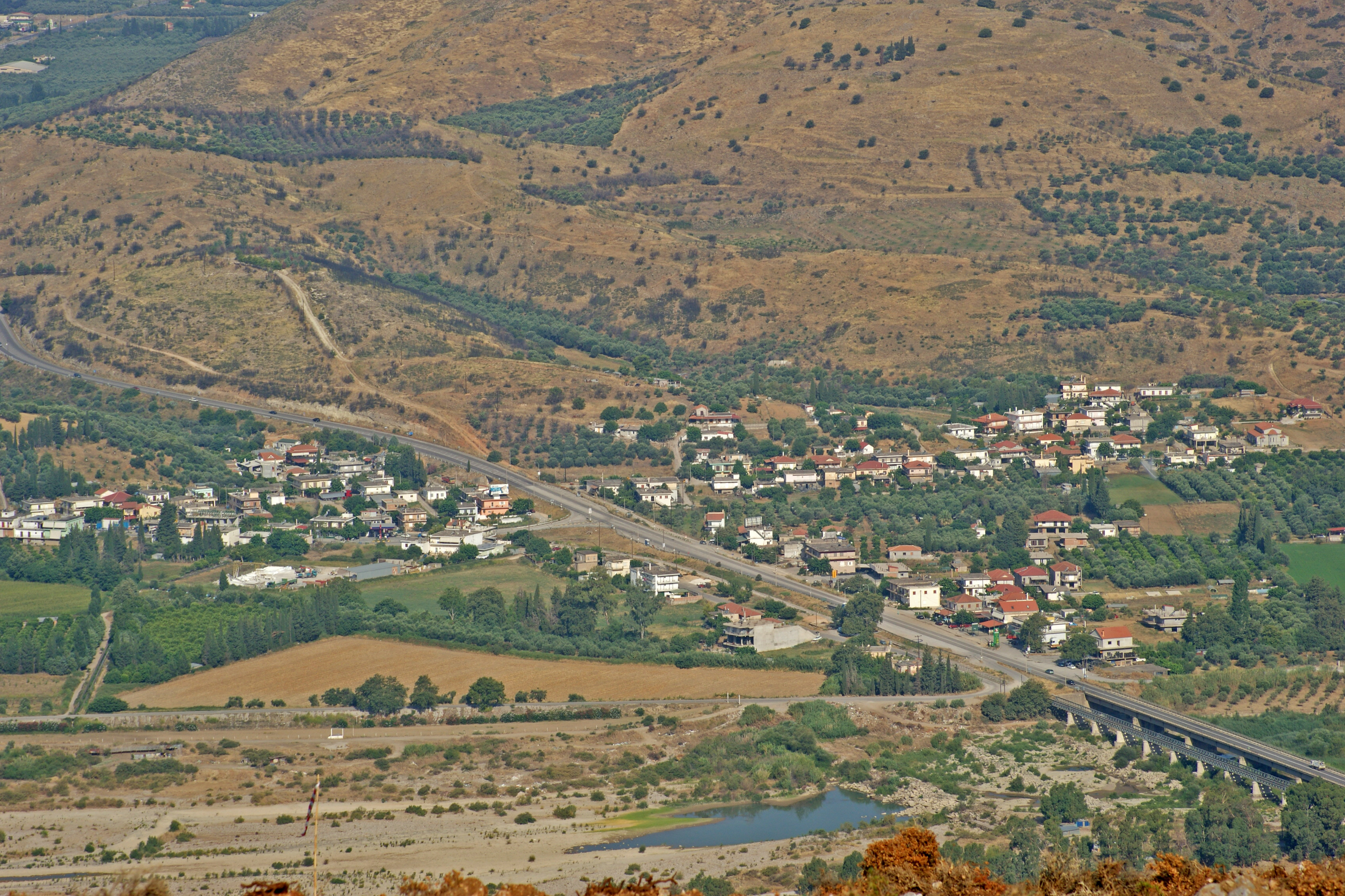 Evinochori, village in Etoloakarnania prefecture, Greece interchange